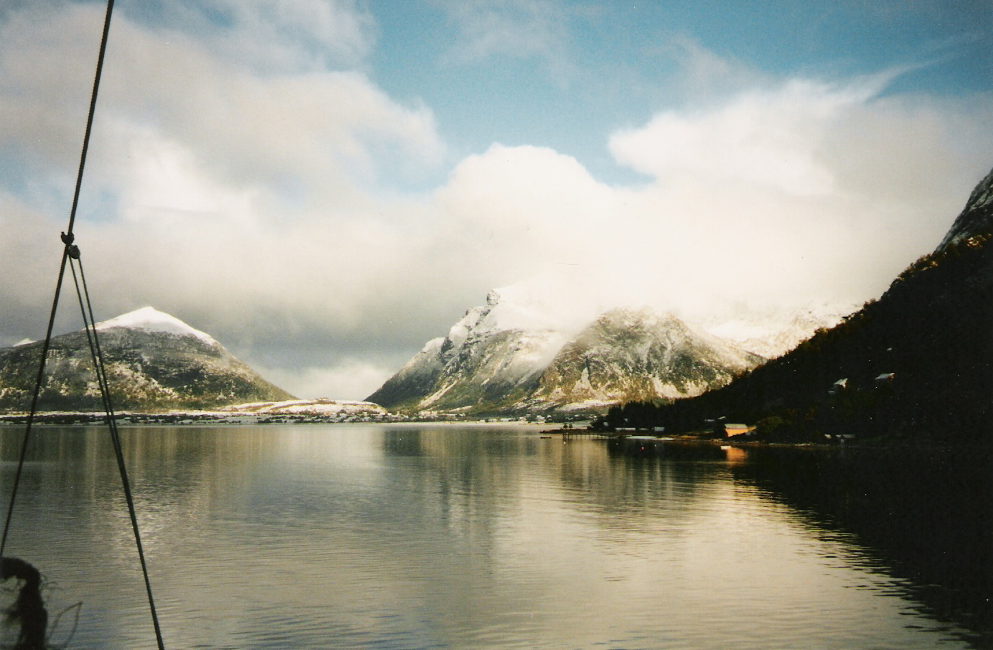 own work, the mountains at Øernes (Norway) October 2001 taken by ERWEH